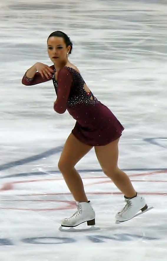 Roberta Rodeghiero at the 2011 World Figure Skating Championships